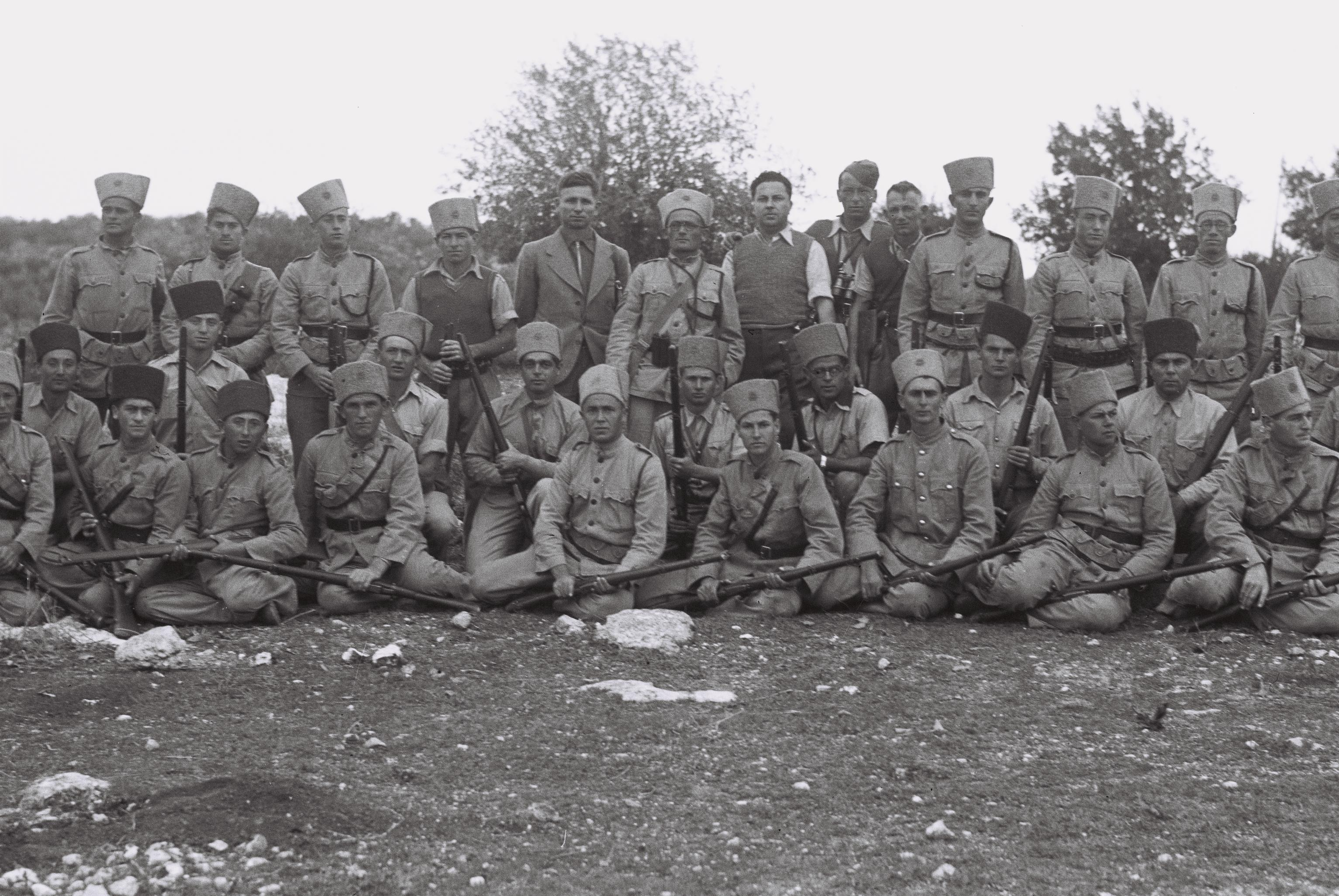 Group Picture Jewish Settlement Police